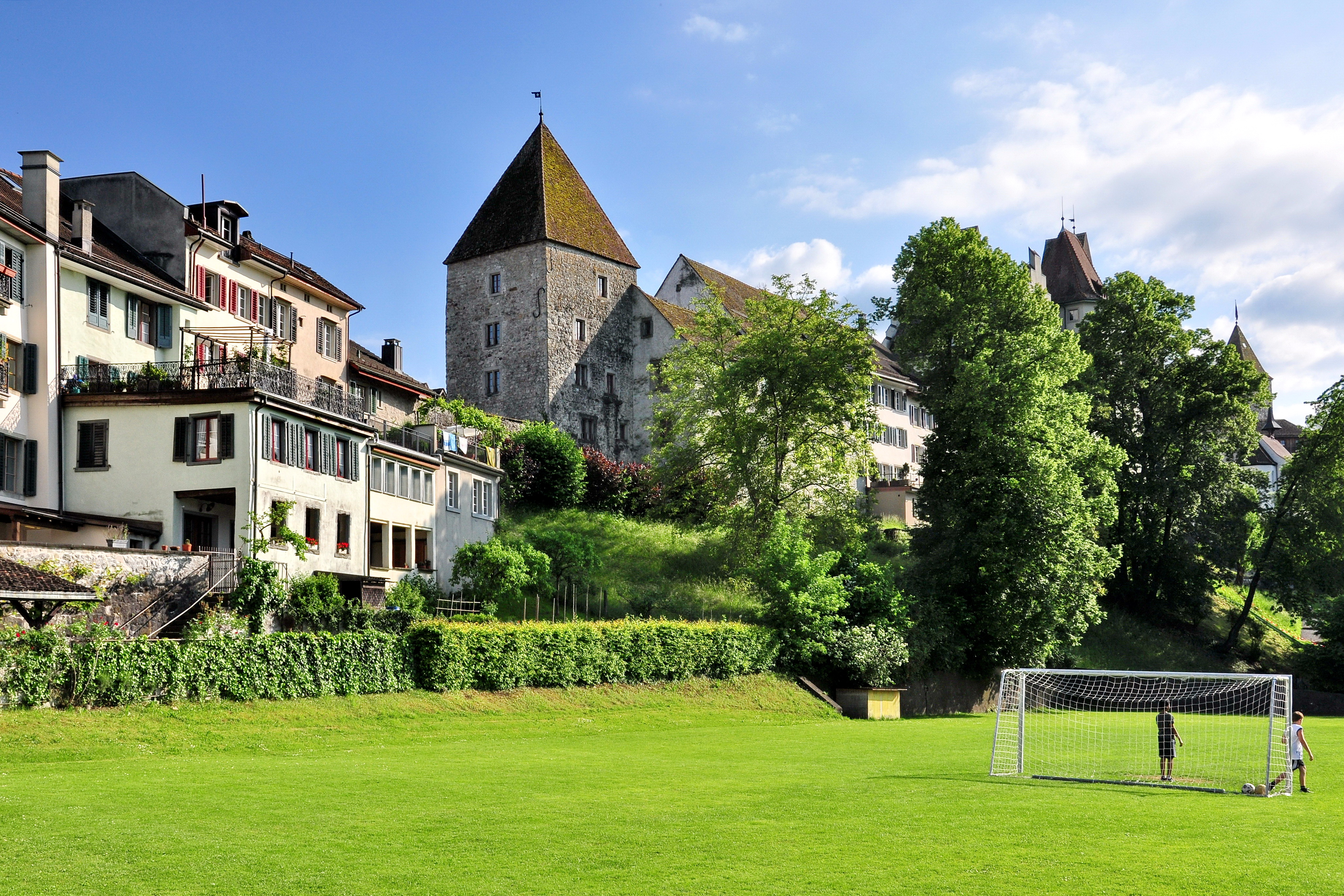 Rapperswil (SG) : Stadtmuseum (Breny tower) and northwestern town walls as seen from Giessi.